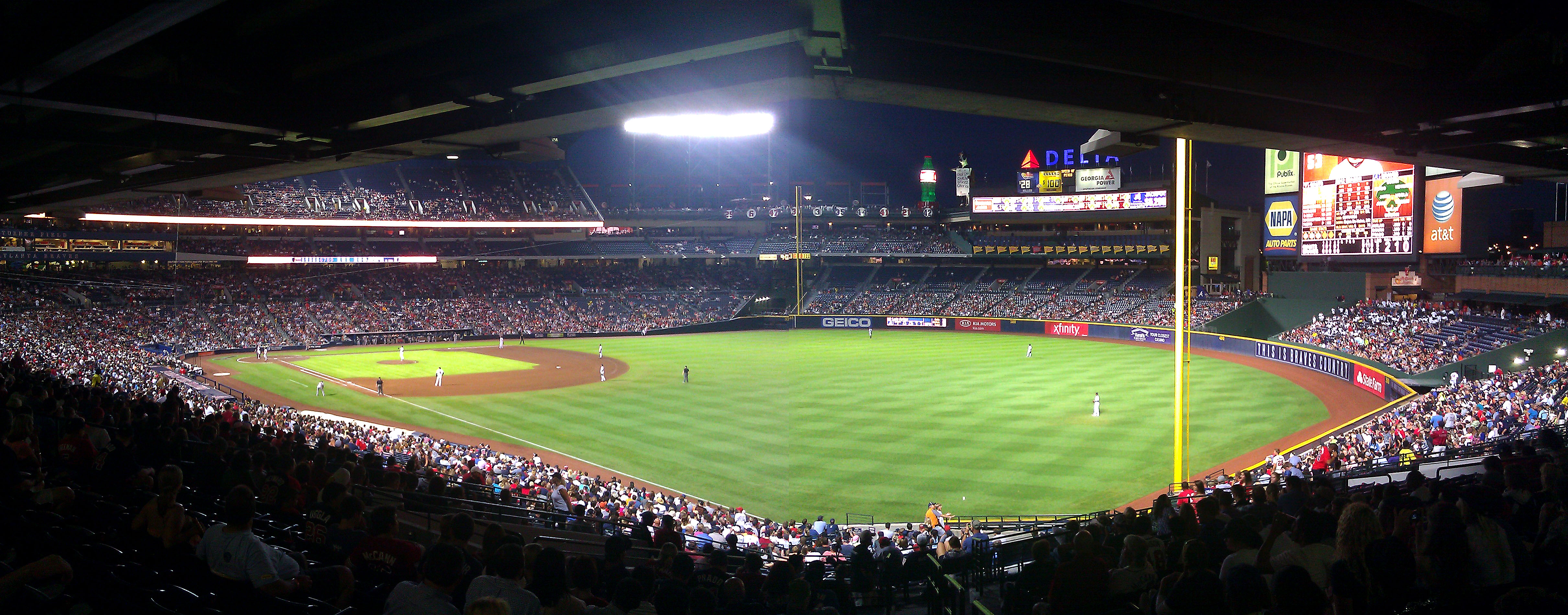 A panorama of Turner Field made on 17th July 2012